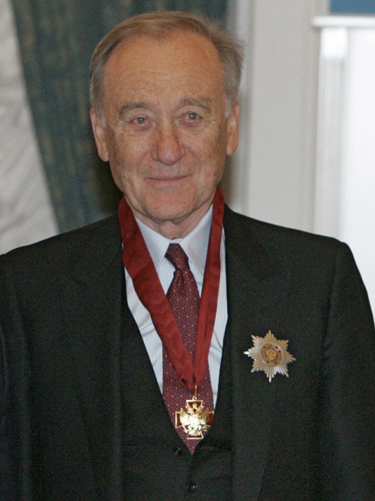 THE KREMLIN, MOSCOW. Ceremony for the presentation of state awards. The composer Rodion Shchedrin receives the order For Services to the Fatherland II degree.